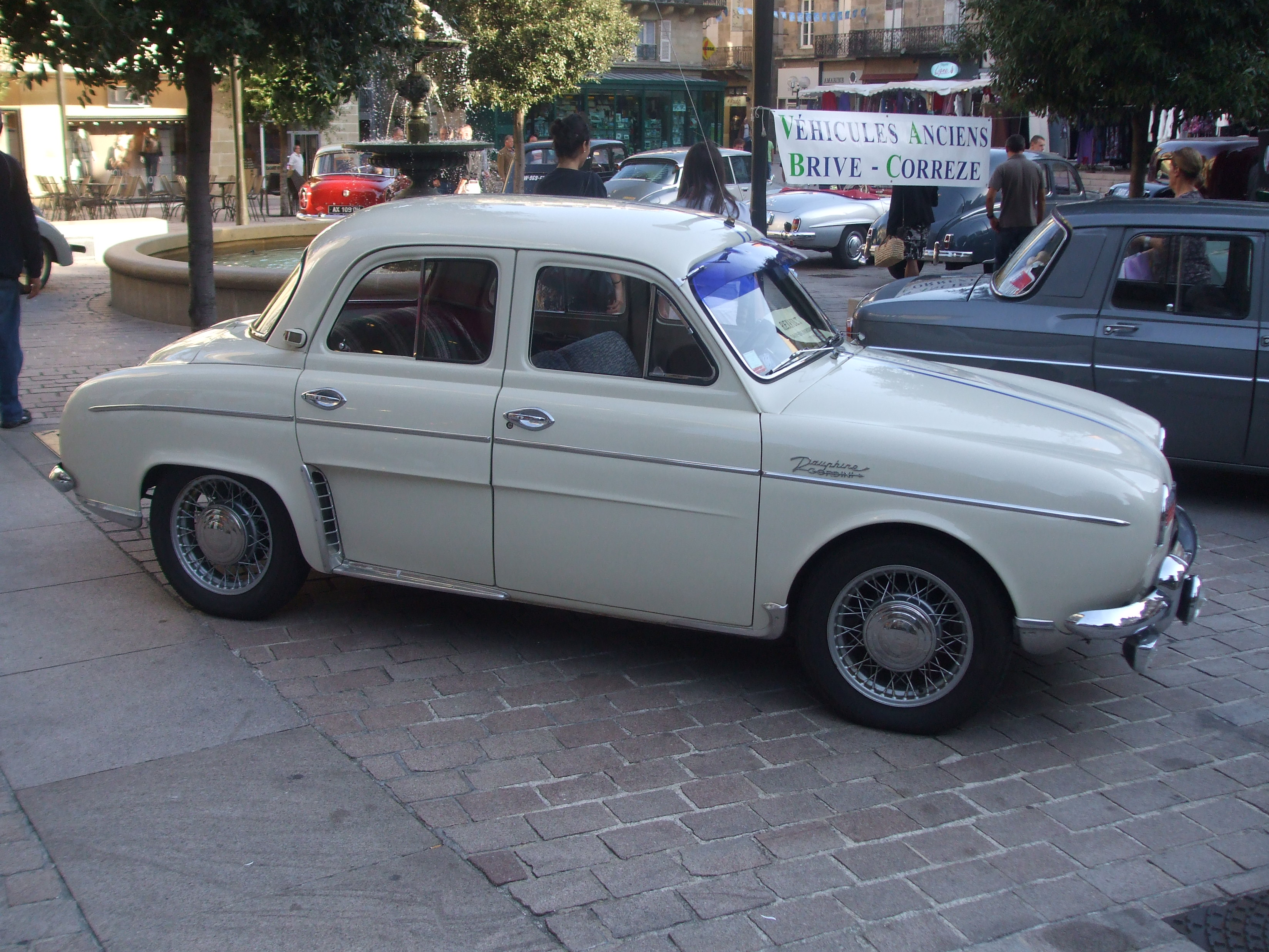 Dauphine Gordini at Car Show, place du Civoire, Brive la Gaillarde, France